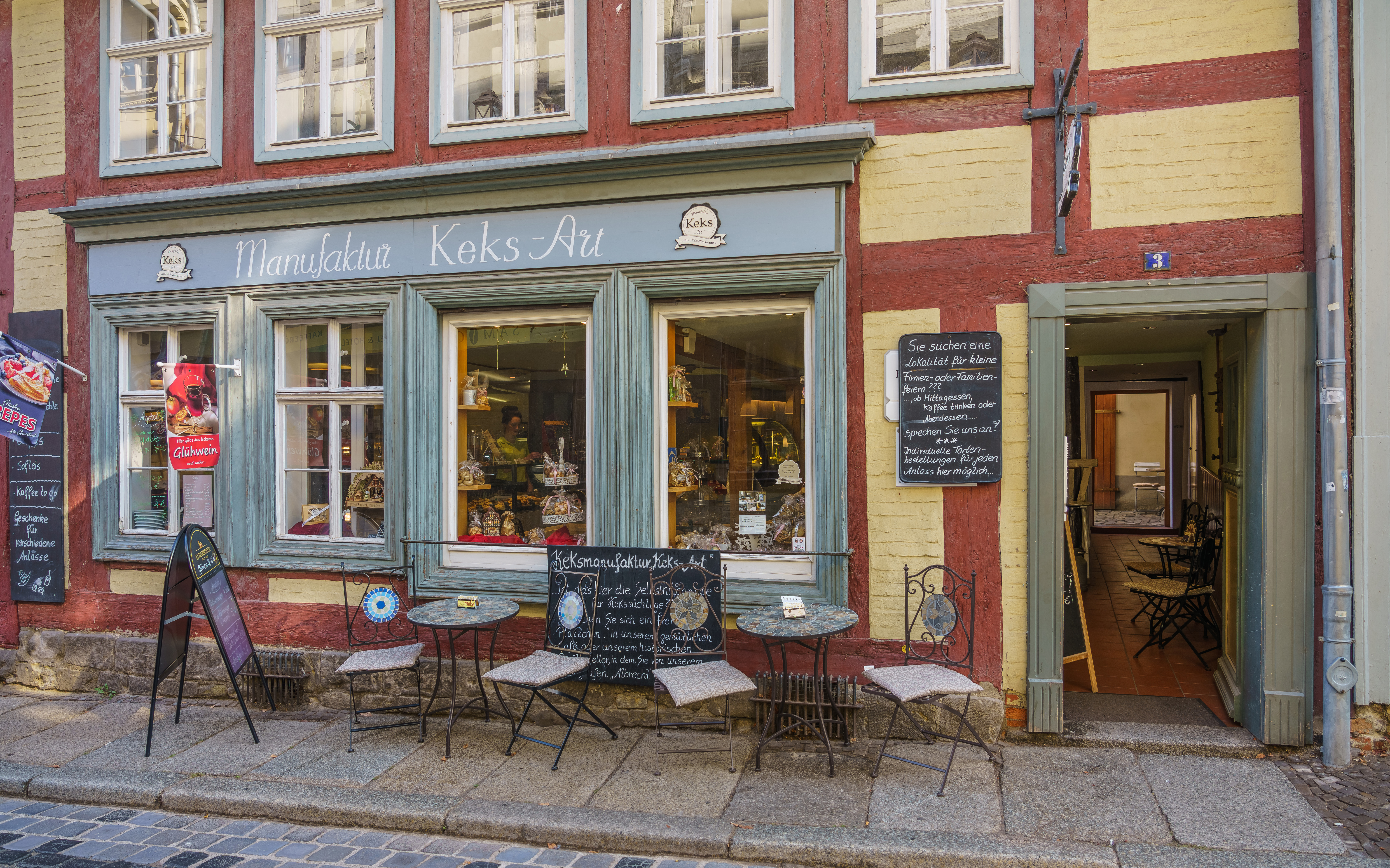 Old Town in Quedlinburg, Germany